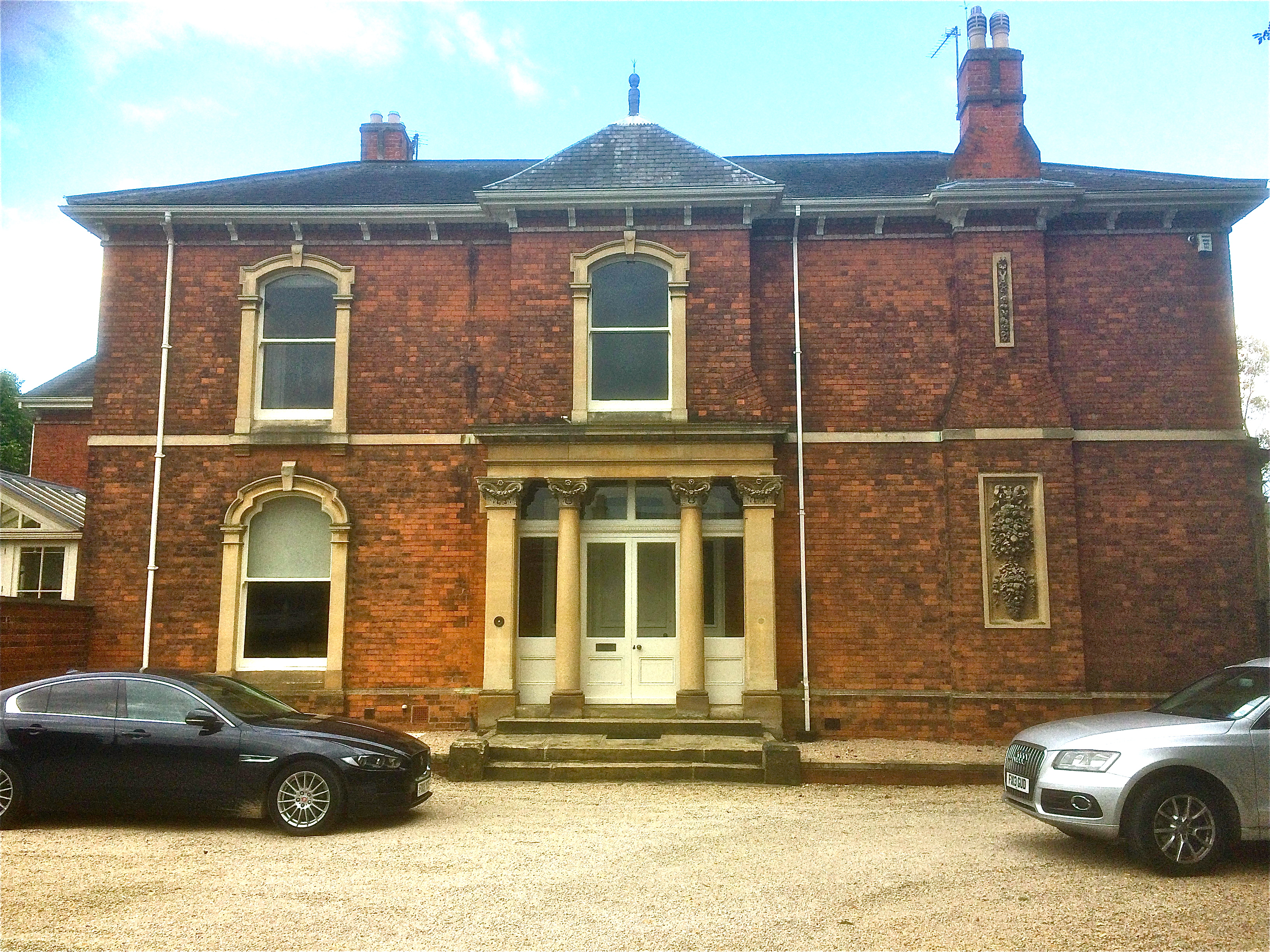 1 Sewell Road, (off Greetwell Road) Lincoln.